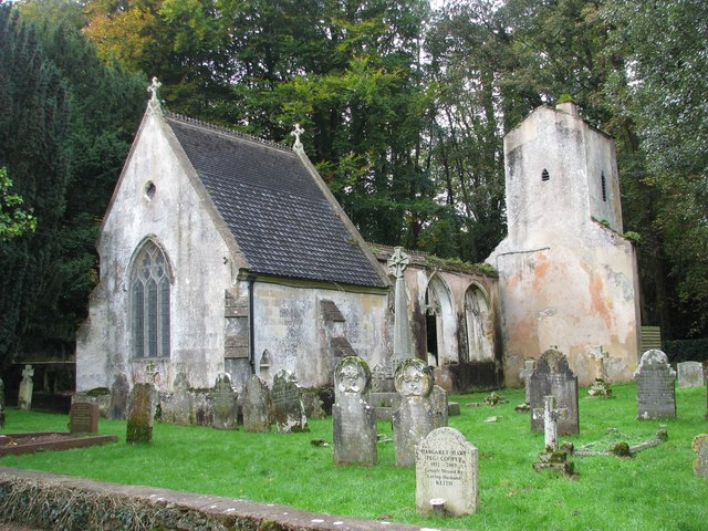 Rolle family mausoleum, churchyard and ruin of the old St Mary's parish church at Bicton Park, Devon, seen from the east